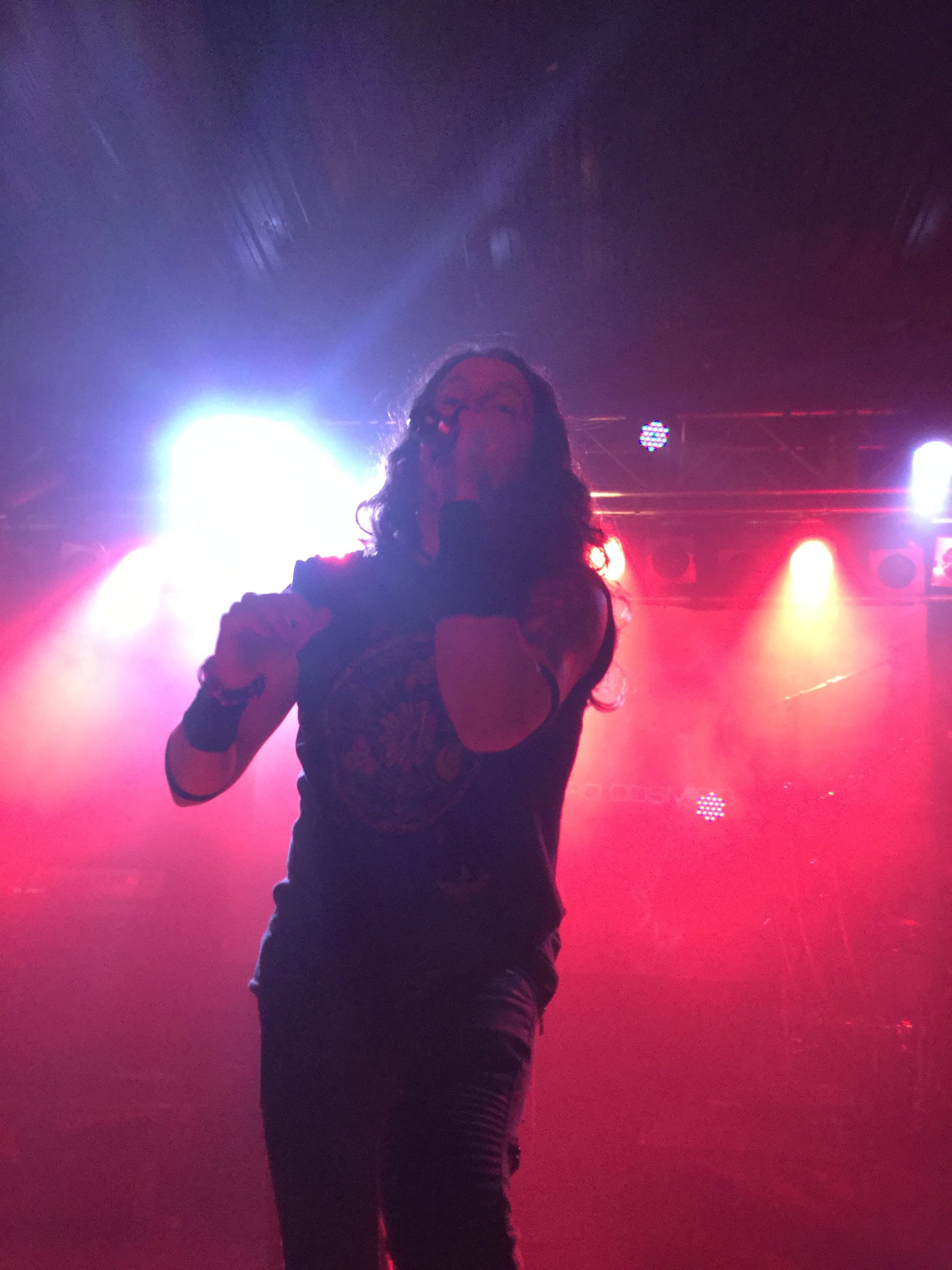 Luca Turilli's Rhapsody live in Munich (2016): Alessandro Conti